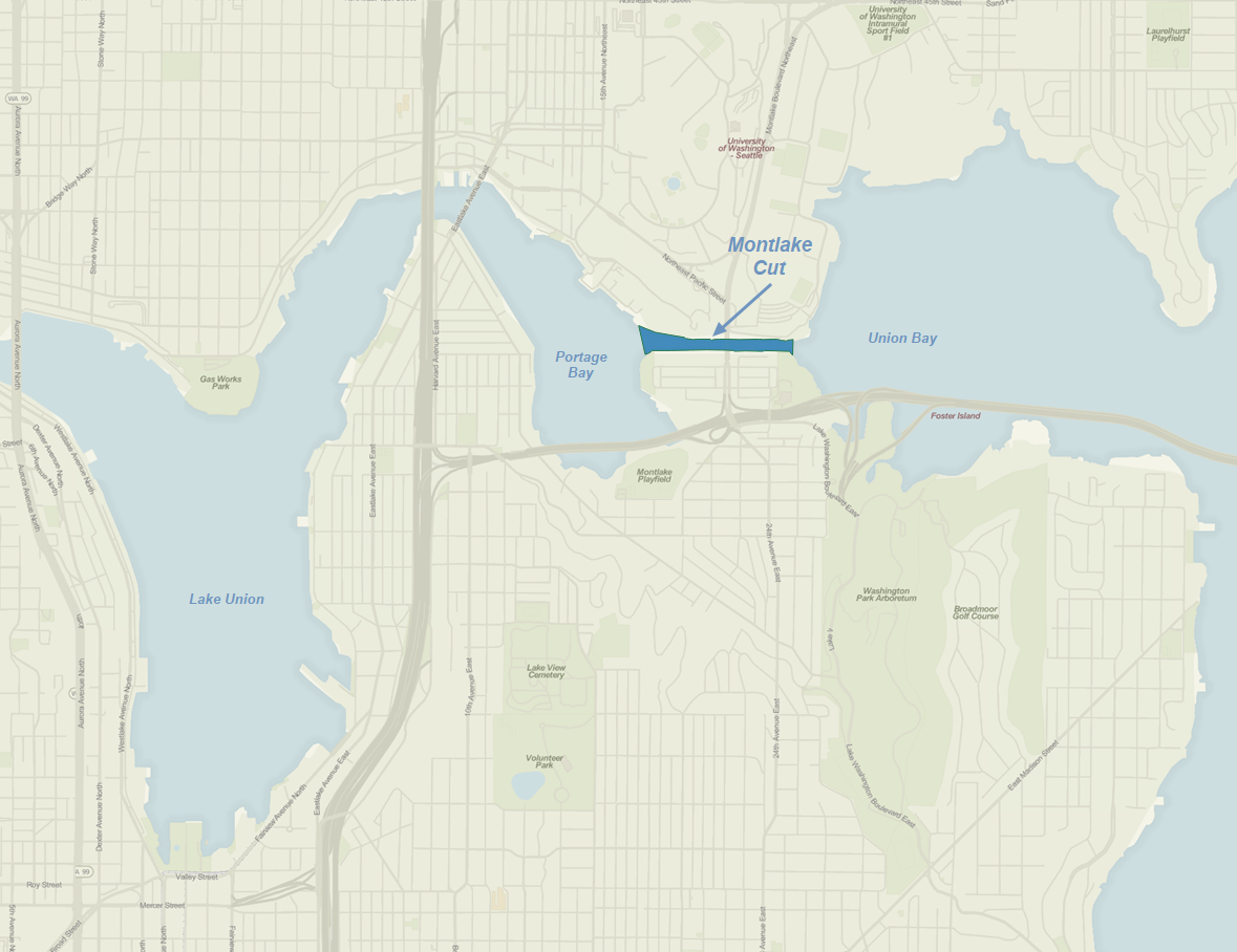 Map of Seattle with Montlake Cut shaded in blue.